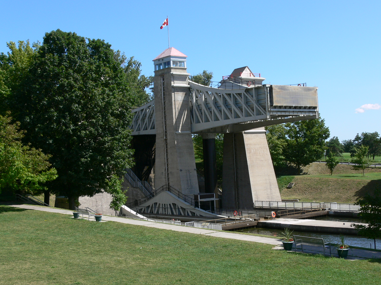 The Peterborough Lift Lock